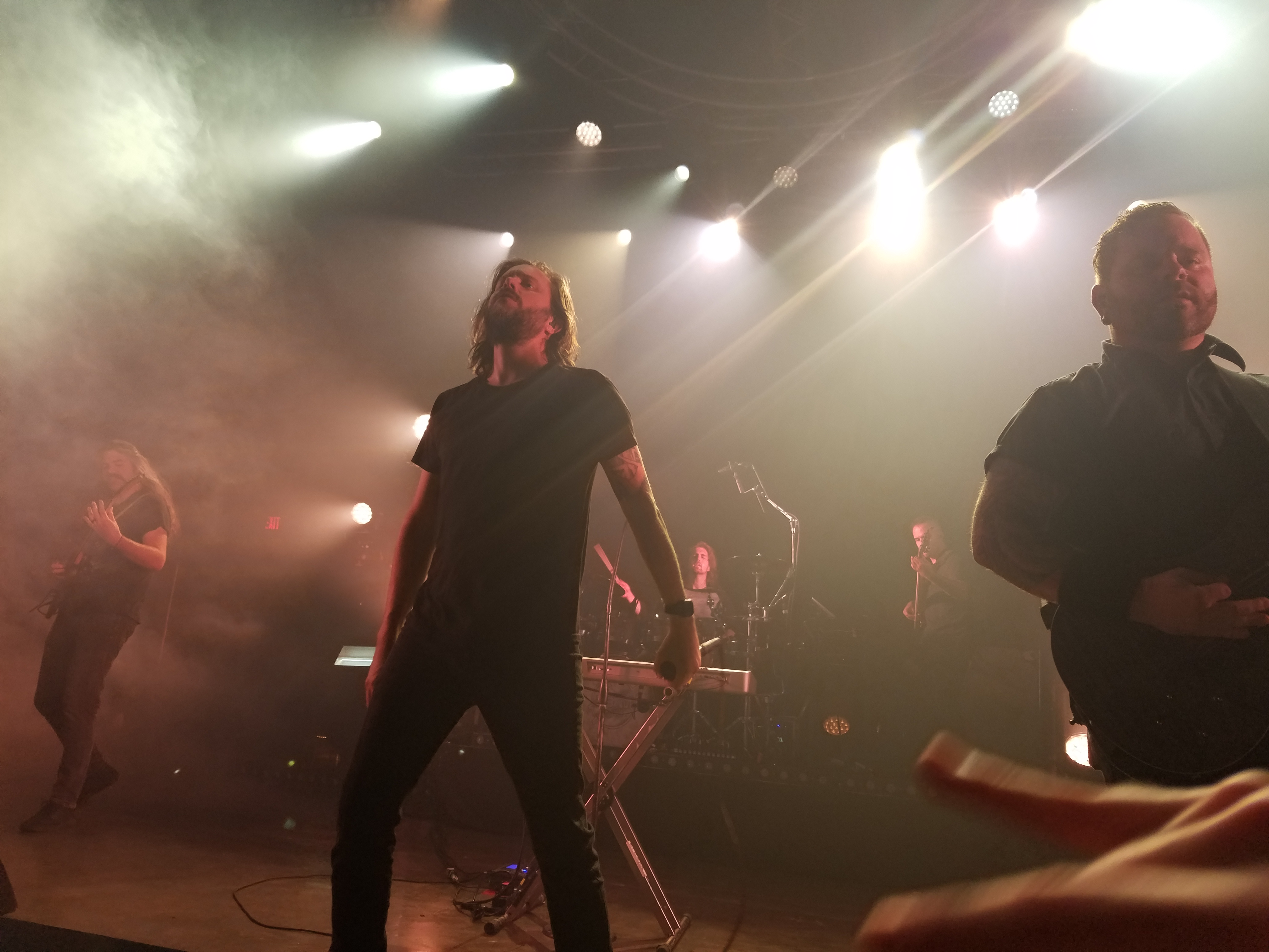 BTBAM performing in 2018